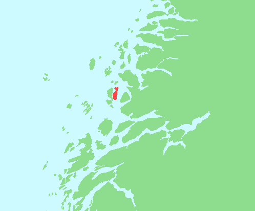 Locator map of Stigen, Nordland, Norway